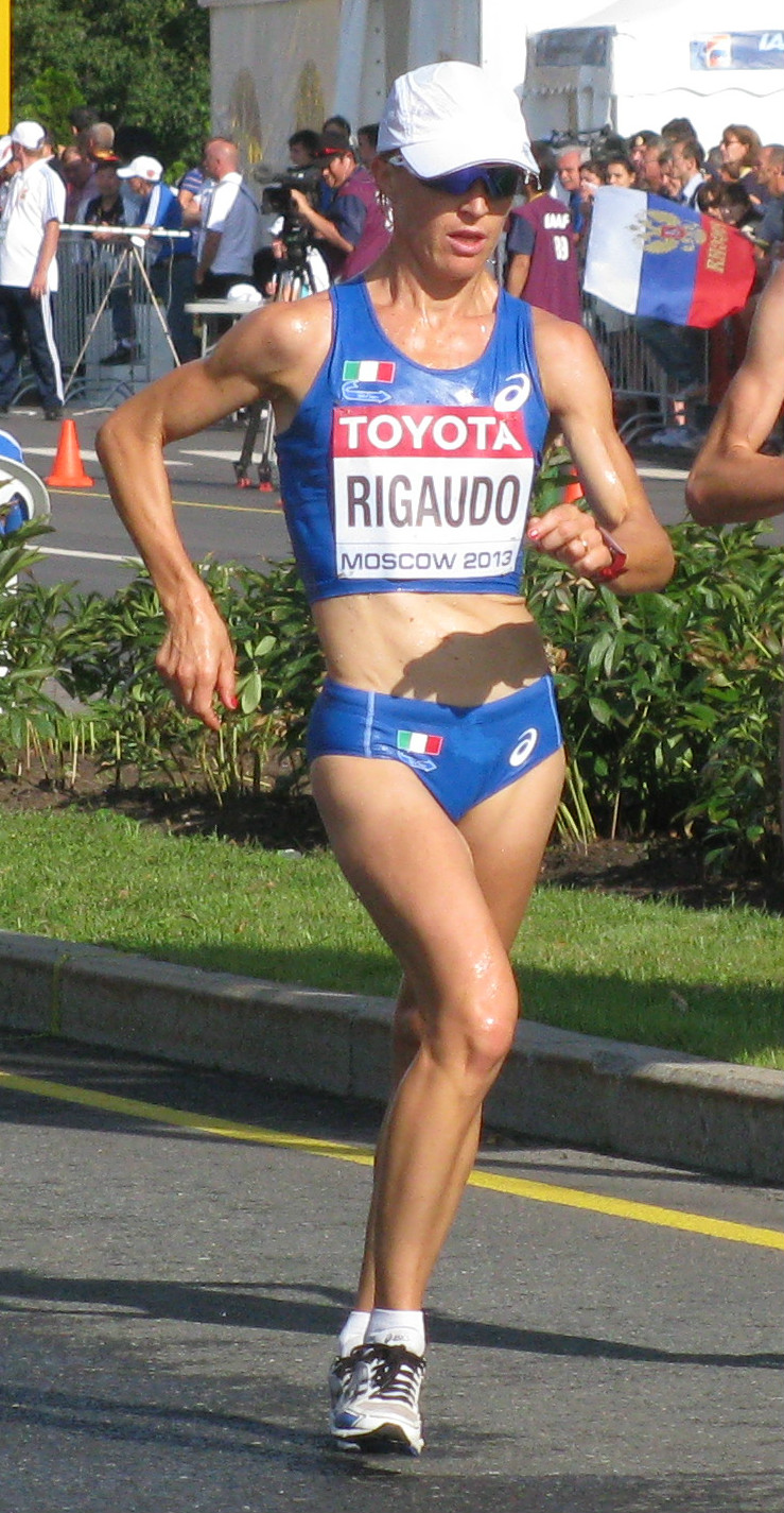 Elisa Rigaudo in action during Women's 20 kilometres walk at the 2013 World Championships in Athletics